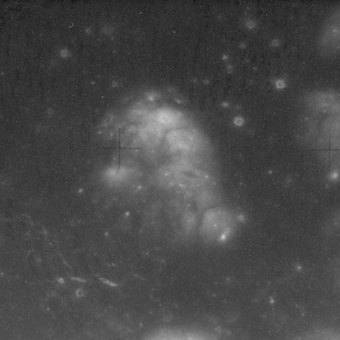 Mons Usov, Mare Crisium, on the moon.